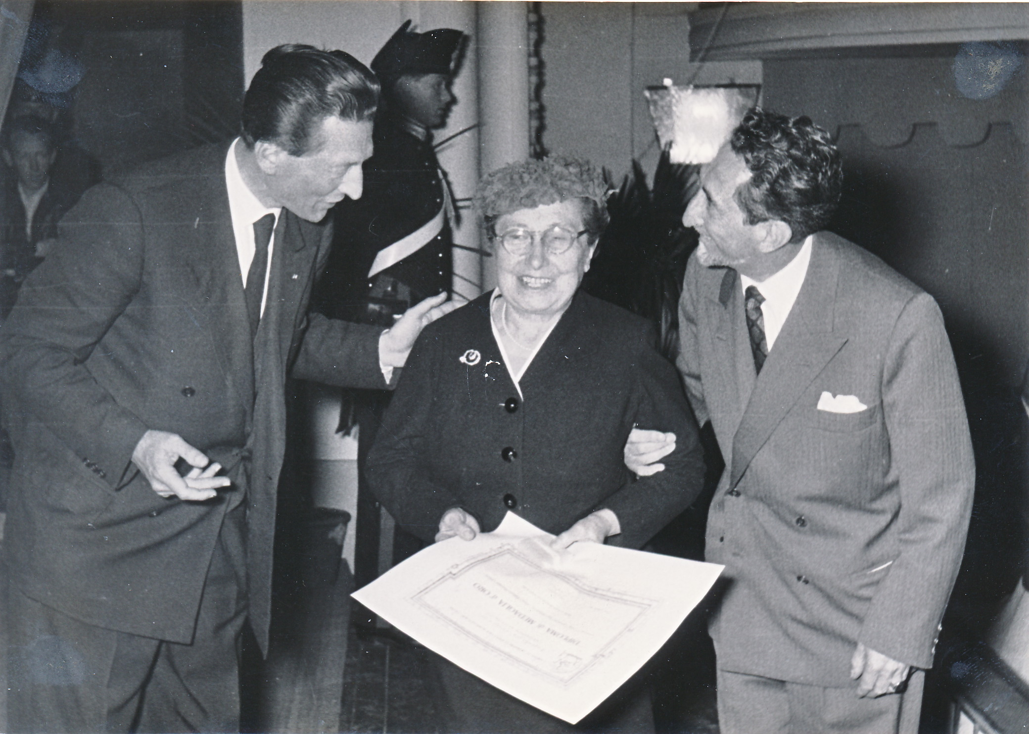 Elena Lanzoni Prevost (President of Officine Prevost Company), withdraws the Gold Medal and the Work and Economic Progress Award for her Uncle Engineer Angelo Lanzoni's [1851-1919] Company in the 75th anniversary of its foundation (1882-1957) (Pavia June 9, 1957). Angelo Lanzoni was one of the most important pioneers in the construction of reinforced concrete, who in 1883 obtained a patent.